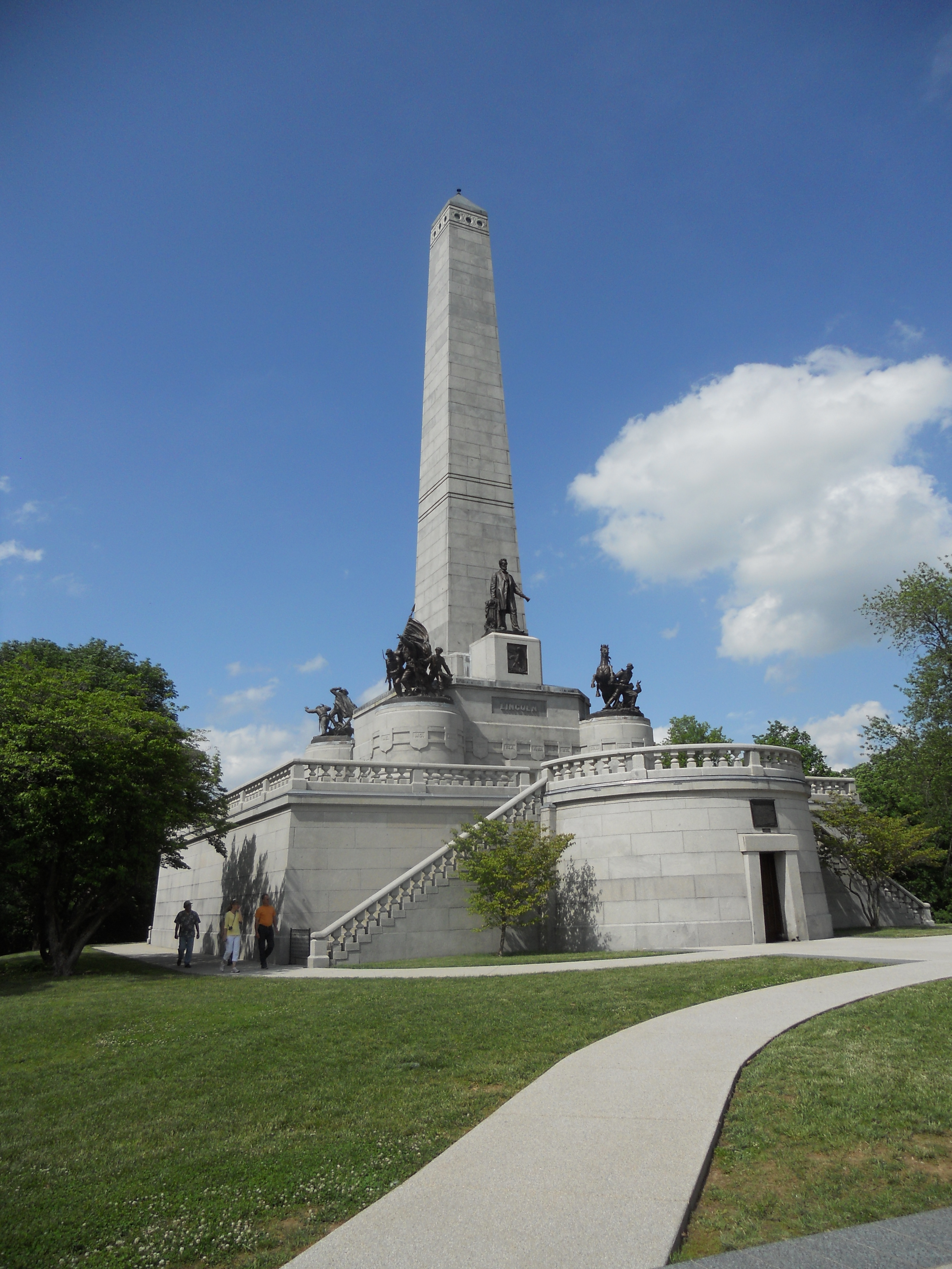 President Abraham Lincoln's tomb in Springfield, Illinois.